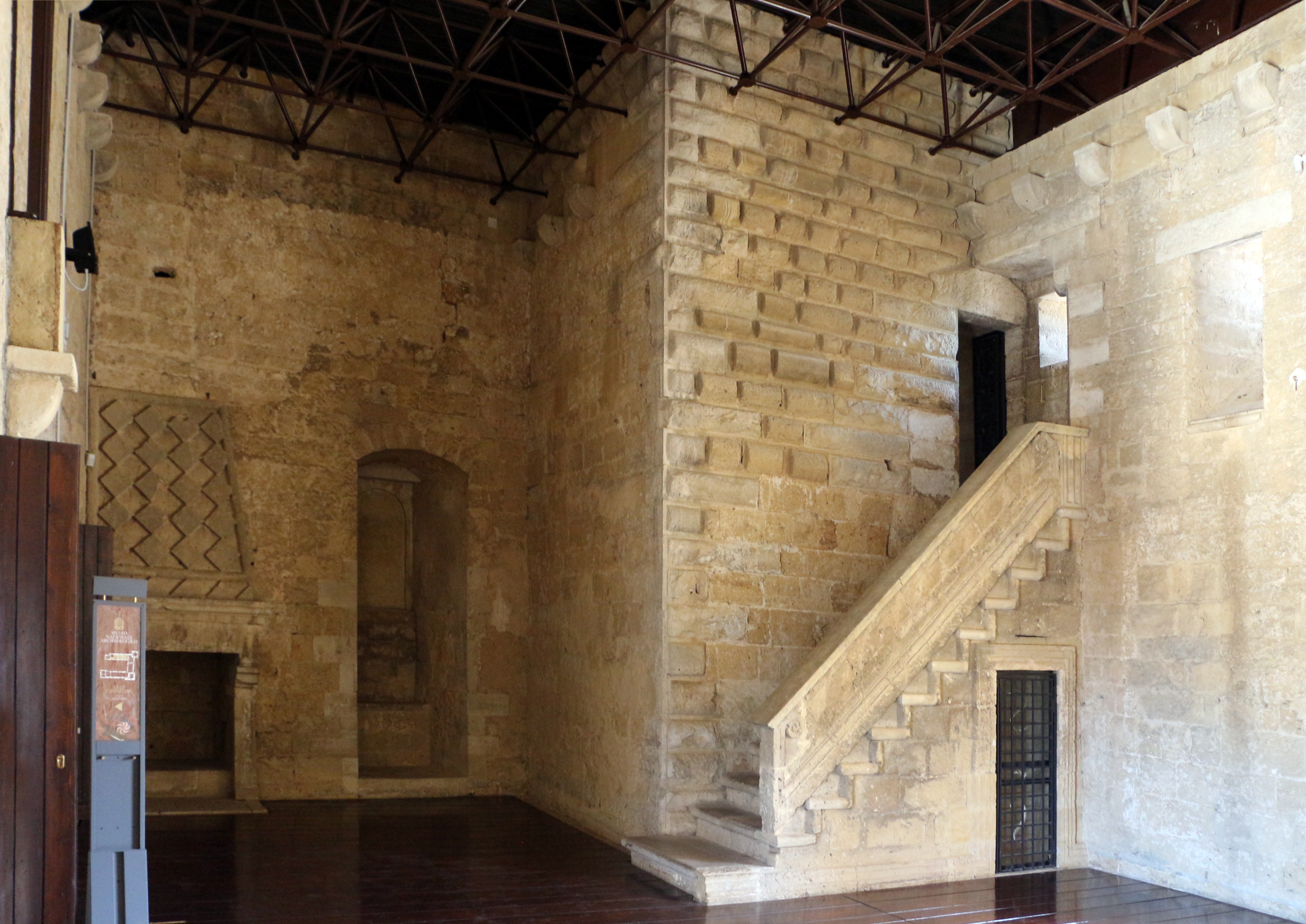 Castello normanno-svevo (Gioia del Colle) - Interior